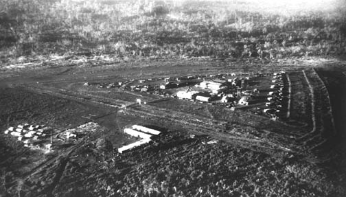 Special Forces camp at Plei Me, ~45km south of Pleiku, Vietnam, 1965. Taken by RF-8 Crusader. Photo from the collection of Mel Elliott via Harry Ettinger. (image must be work of US military employee as the RF-8 is a single seater aircraft, and only the US would be operating these in Vietnam in 1965. The carrier based aircraft were operated by the Navy and Marines, hence US Navy employee).